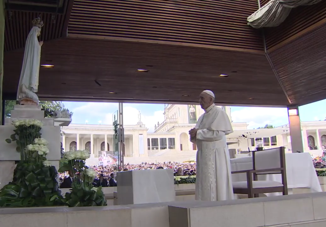 Pope Francis praying to Our Lady of the Rosary of Fatima, in the Chapel of Apparitions (Sanctuary of Fátima, in Portugal), on 12 May 2017.